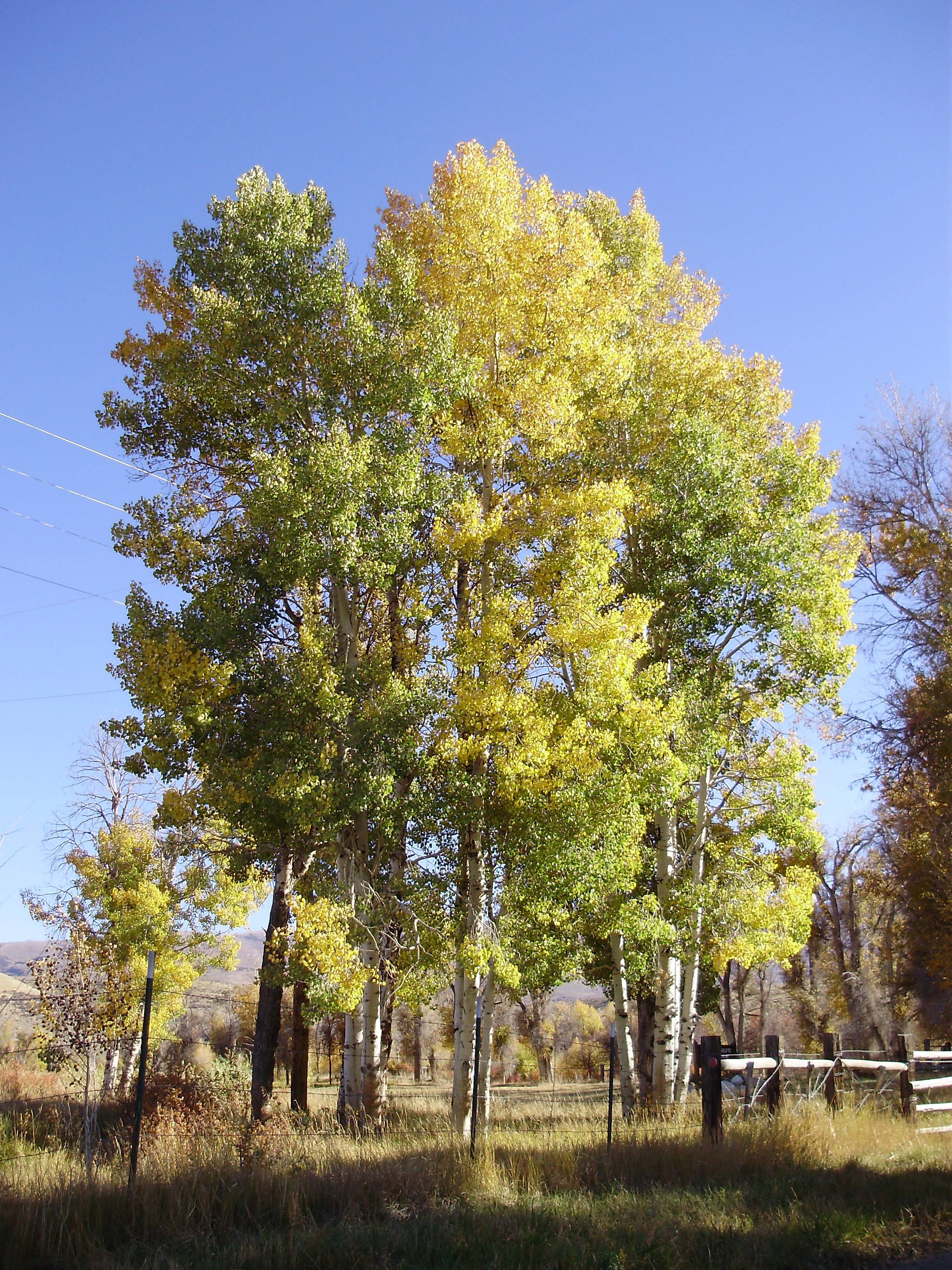 Aspen along Clubine Road in Lamoille Valley